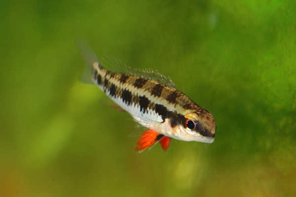 Dicrossus filamentosus, female specimen.